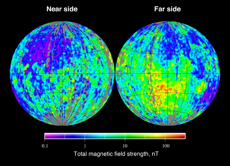 Total magnetic field strength at the surface of the Moon as derived from the Lunar Prospector electron reflectometer experiment. The data are presented in two hemispheric Lambert azimuthal equal area projections, and the color bar is scaled logarithmically. The color gray corresponds to a lack of data.